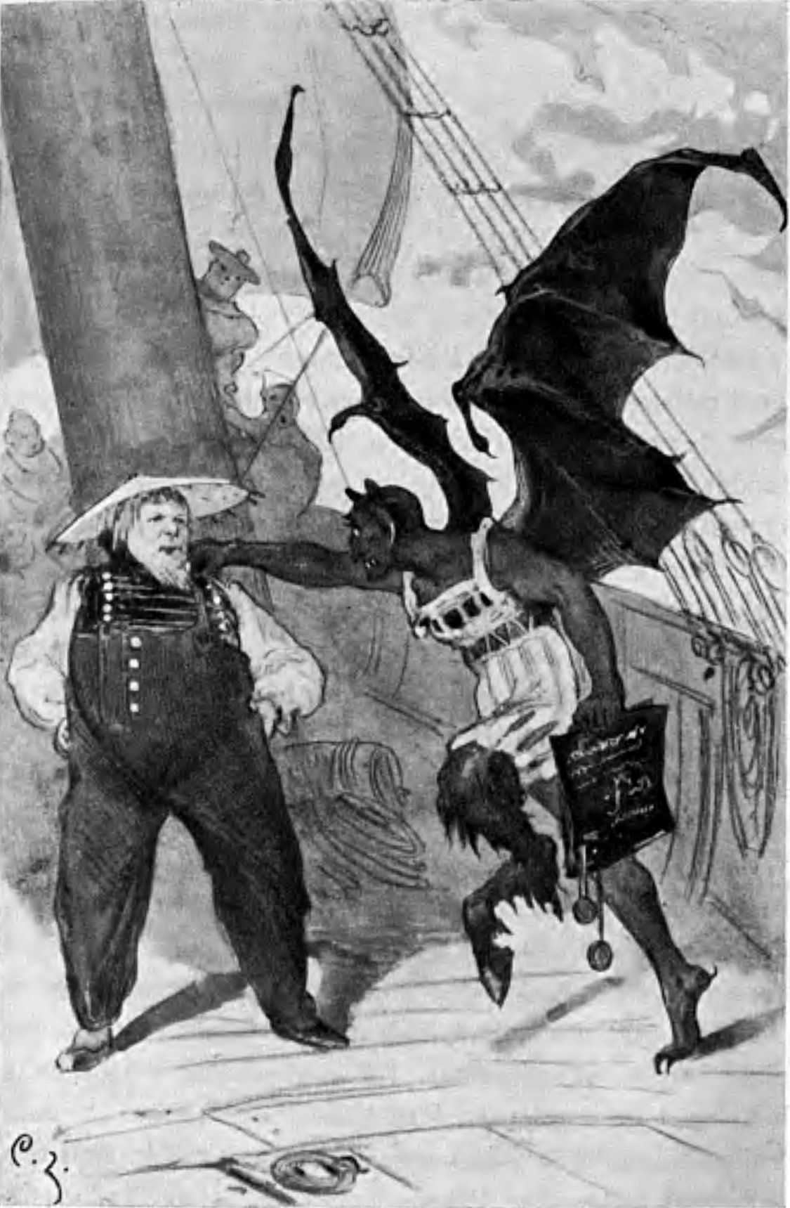 Illustration by Carl Larsson of the book "Folksagor" by Asbjörnsen and Moe, Stockholm 1927